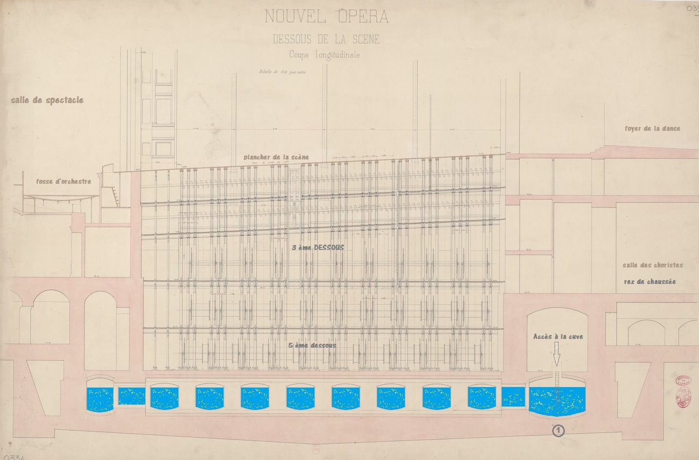 Palais Garnier backstage